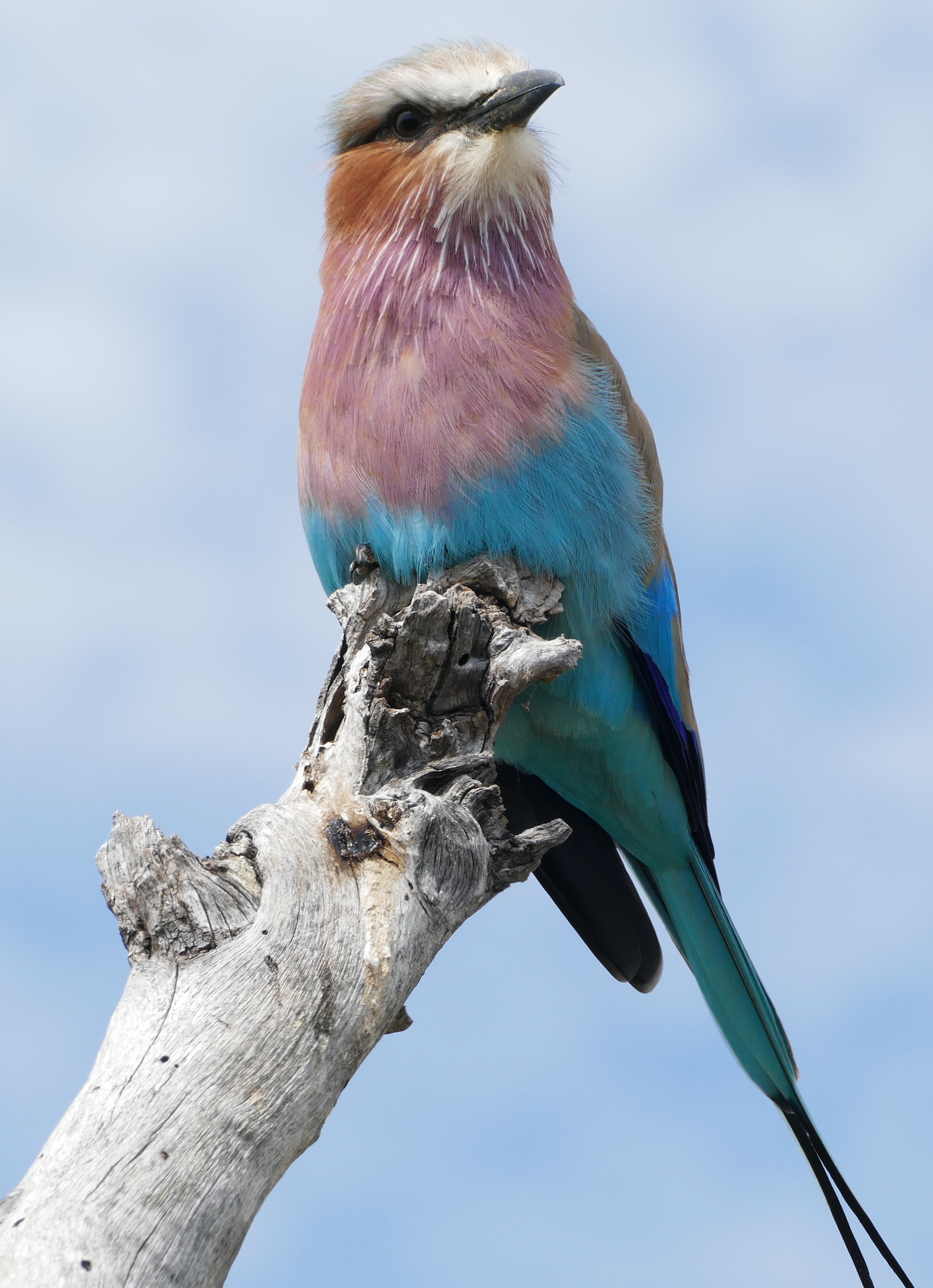 A lilac-breasted roller photographed in Hwange National Park, Zimbabwe, April 2017